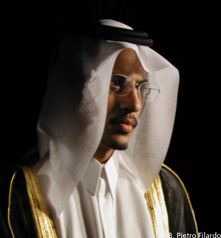 This photo of Sheikh Saud was taken by my, Benjamin Pietro Filardo, at a public event in Doha, early 2002.